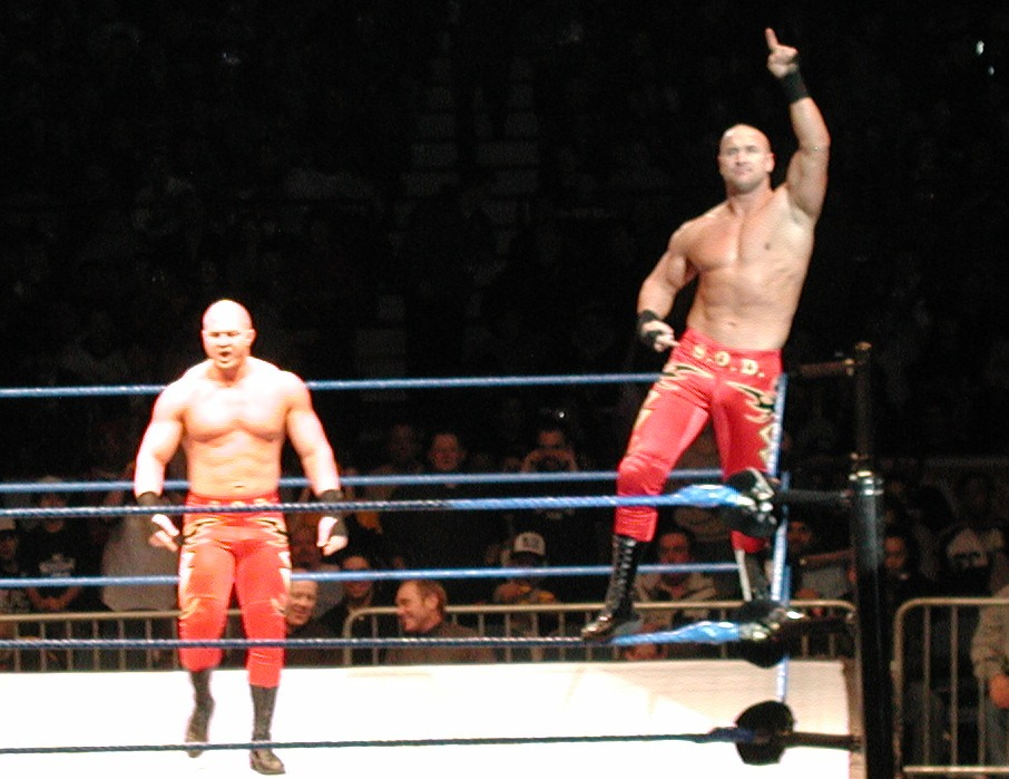 The Basham Brothers at a WWE live event in Rosemont, IL on January 6en:2007.